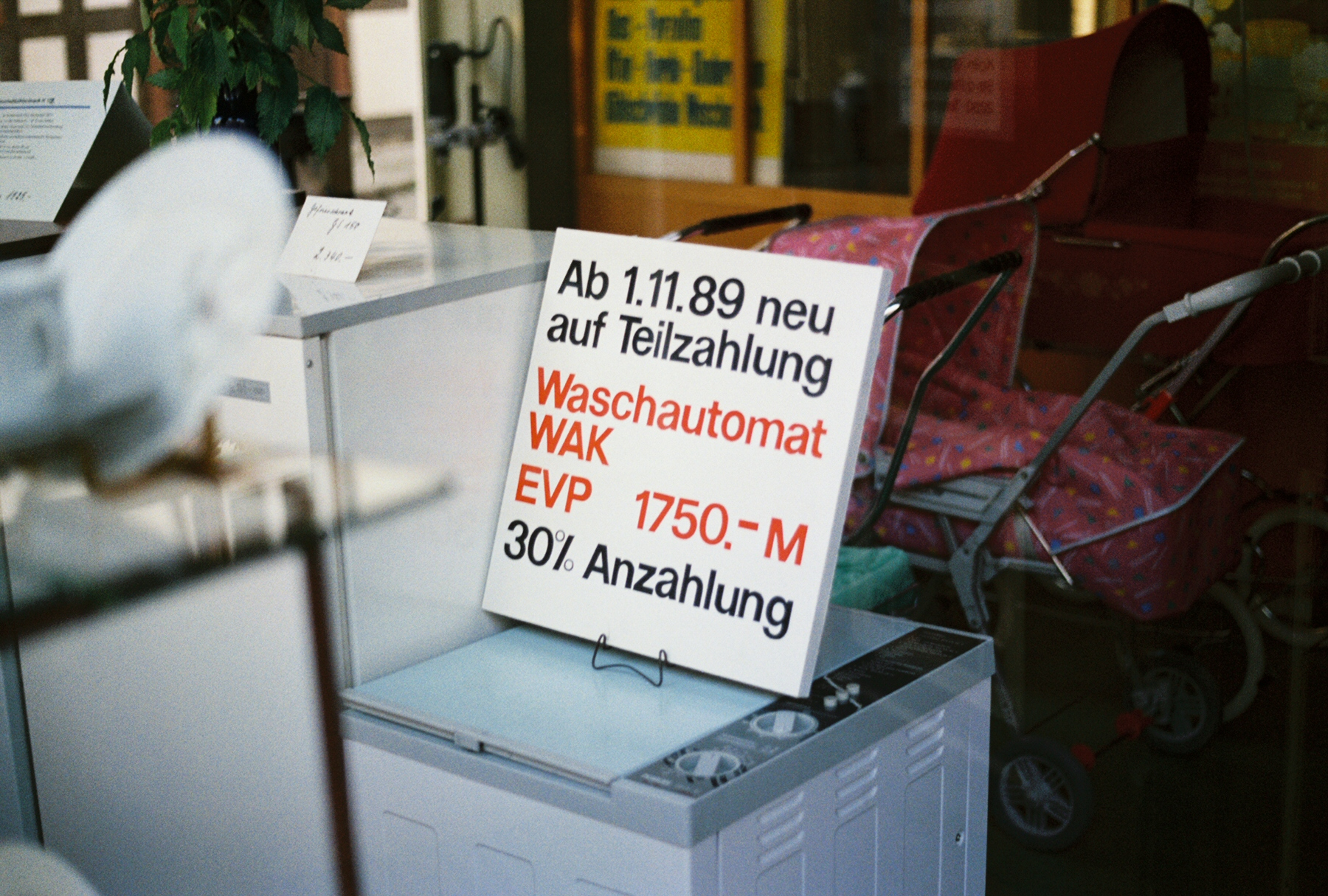 shop window in Teterow, November 2, 1989